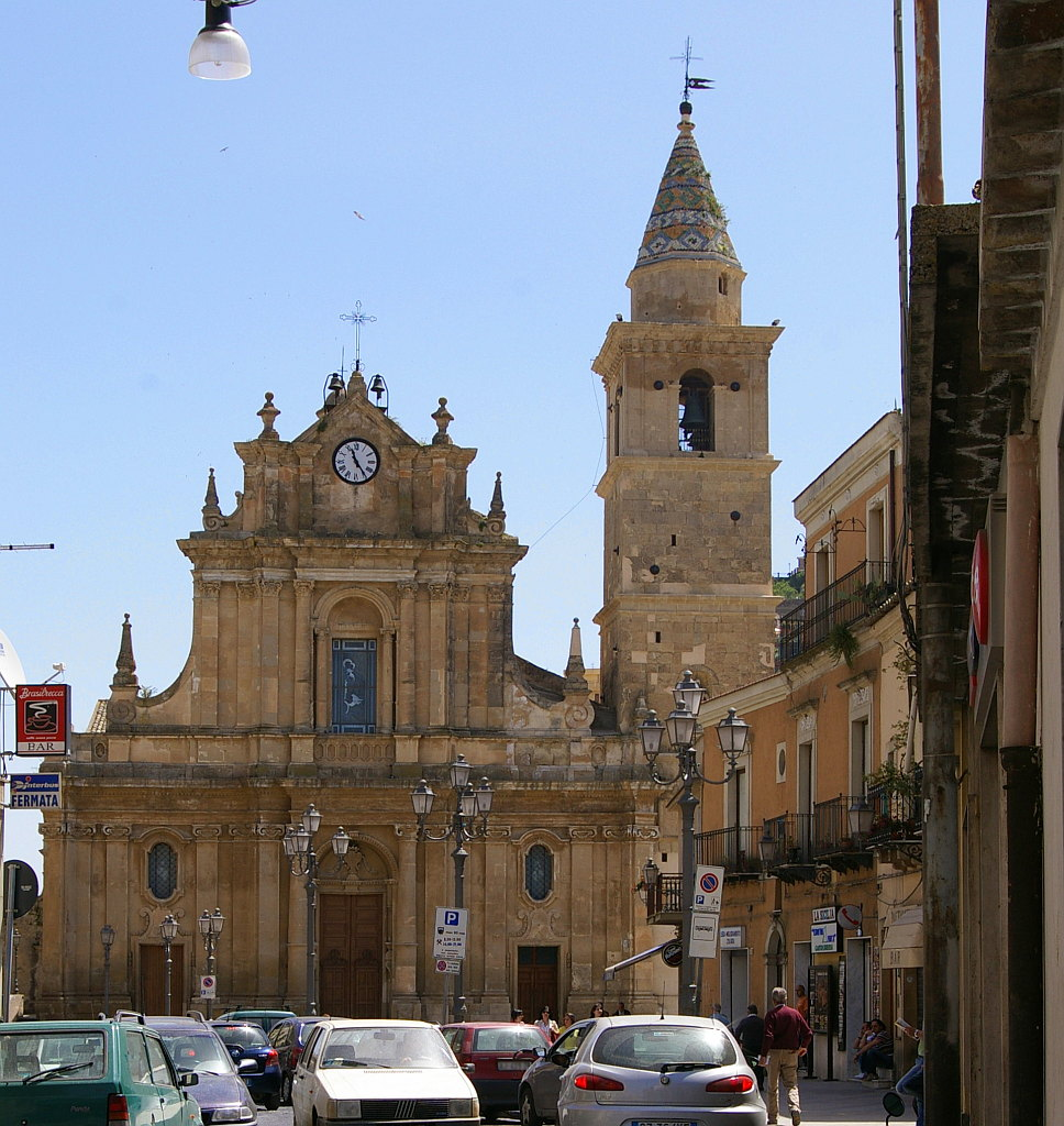 Chiesa Sant'Antonio di Padova at Agira / Sicily in Provincia Enna